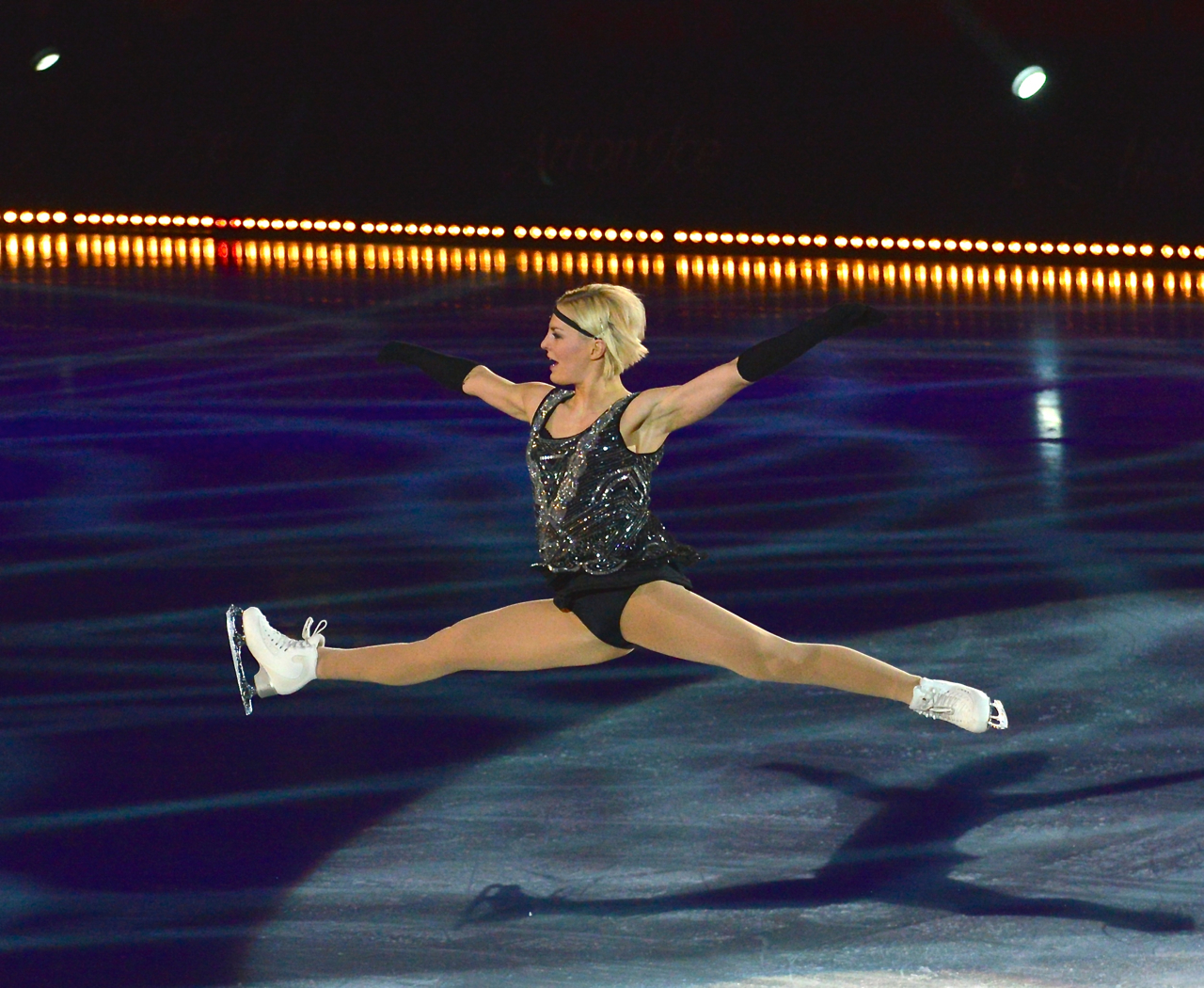 Viktoria Helgesson in "Art on Ice" at the Globe Arena in Stockholm, March 13, 2014.